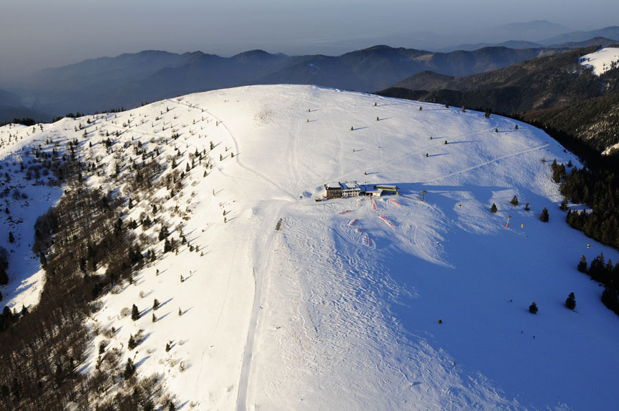 Aerial Picture Belchen (Black Forest, Germany)